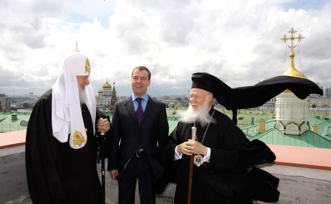 Visit of patriarch Bartholomew of Constantinople to Russia, May 2010